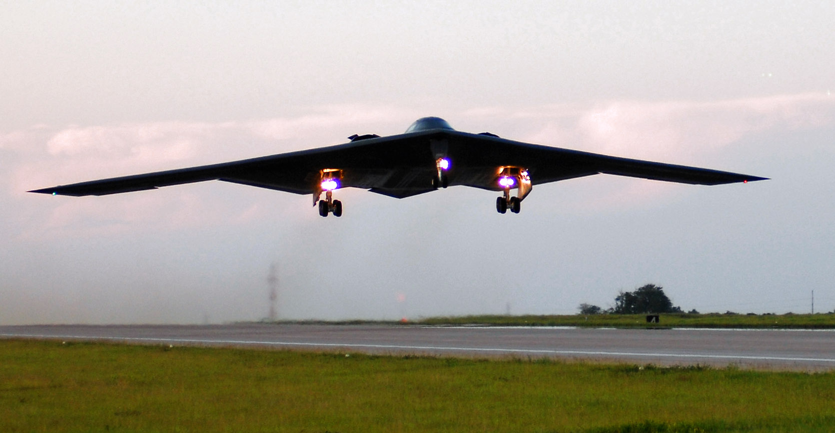 Col. Gregory Champagne and Maj. David Thompson take off on a B-2 Spirit mission June 18 at Whiteman Air Force Base, Mo. It was the first sortie flown and launched by Air National Guard members. Colonel Champagne is the 131st Fighter Wing vice commander and Major Thompson is assigned to the 131st FW. (U.S. Air Force photo/Senior Airman Jessica Snow)